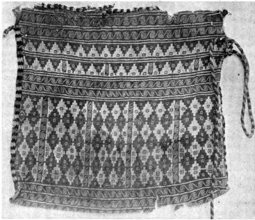 Peruvian double cloth coca leaf bag woven of two-ply brown and white cotton, from Peruvian Fabrics by M. D. C. Crawford, Anthropological Papers of the American Museum of Natural History, Vol. XII Part IV, 1916